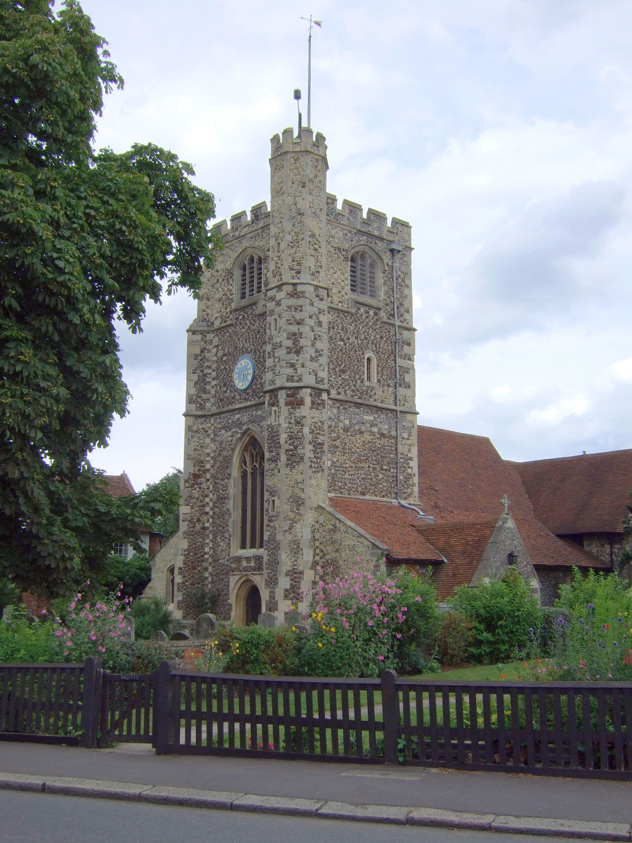 Picture of the parish church in Monken Hadley